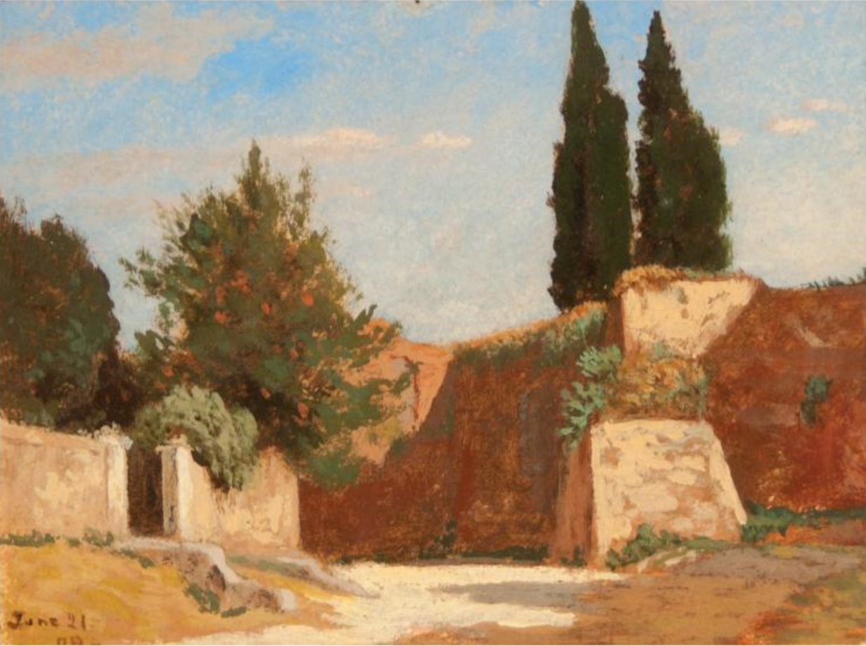 Aurelian's Wall by George Randolph Barse, Jr., 1879, oil on board, 5 x 7.5 in, The Jean and Graham Devoe Williford Charitable